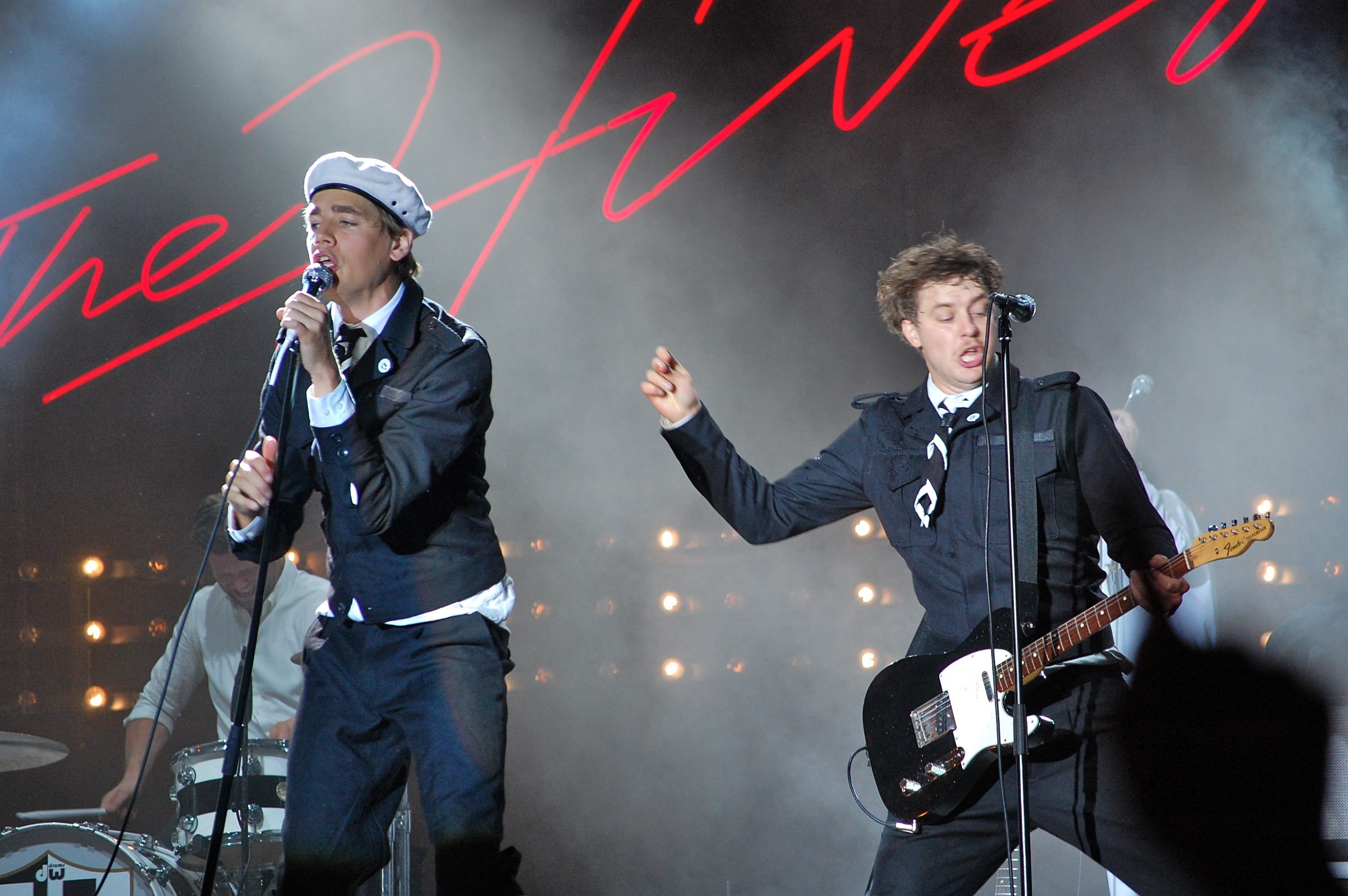 Chris Dangerous, Howlin' Pelle Almqvist & Nicholaus Arson of The Hives